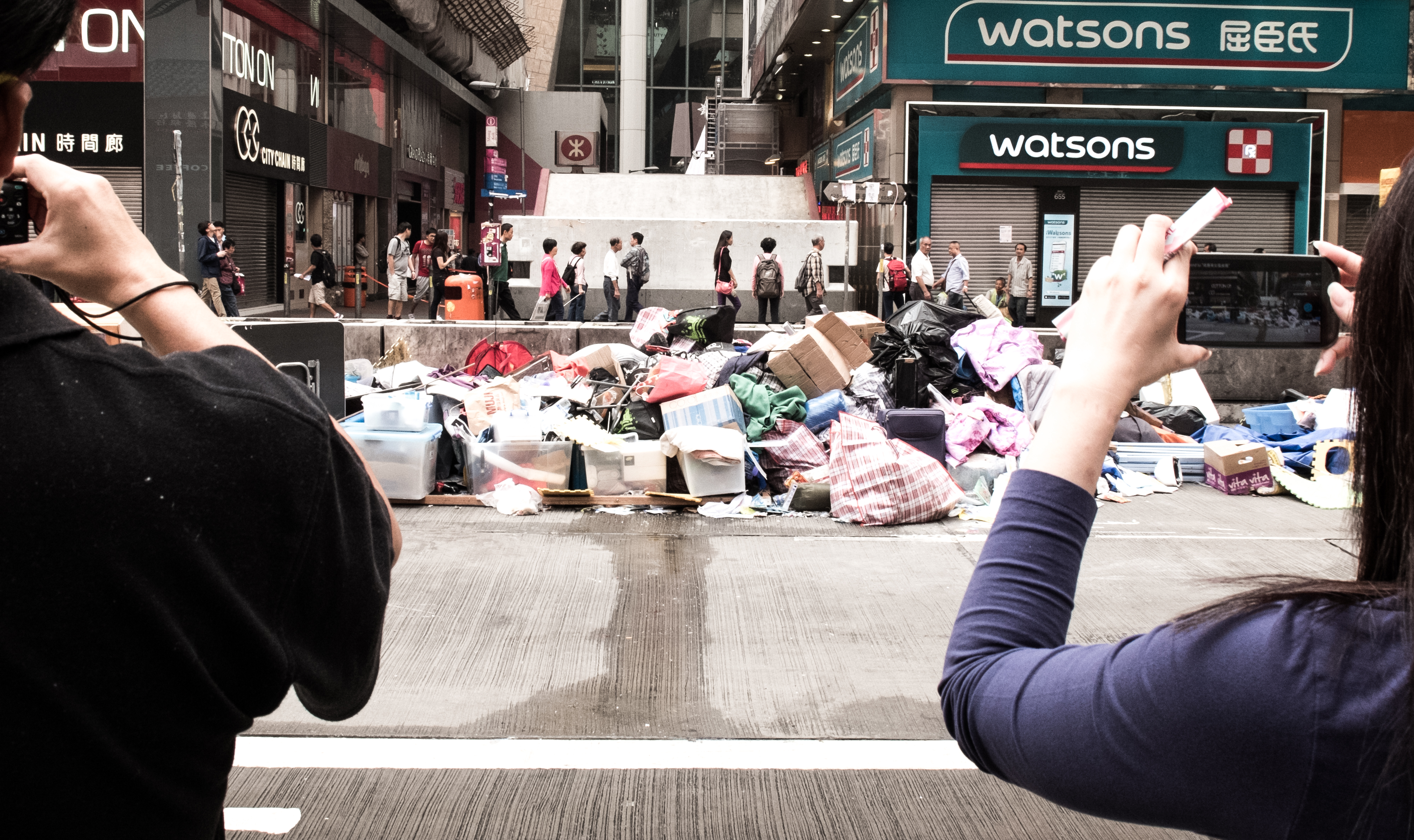 Mong Kok Nathan Road Protesters Goods to be destroyed